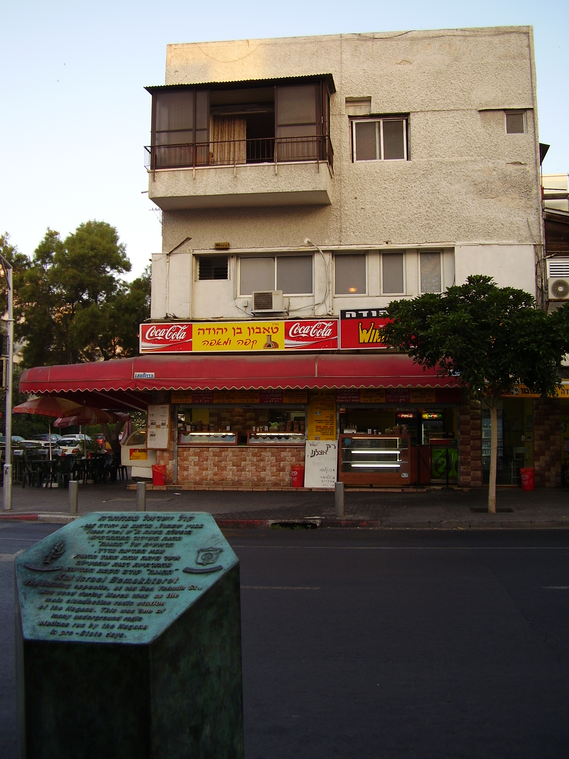 145 Ben Yehuda st., Tel-Aviv, Israel – one of the "Kol Israel Bemakhteret" underground broadcast stations of the Hagana